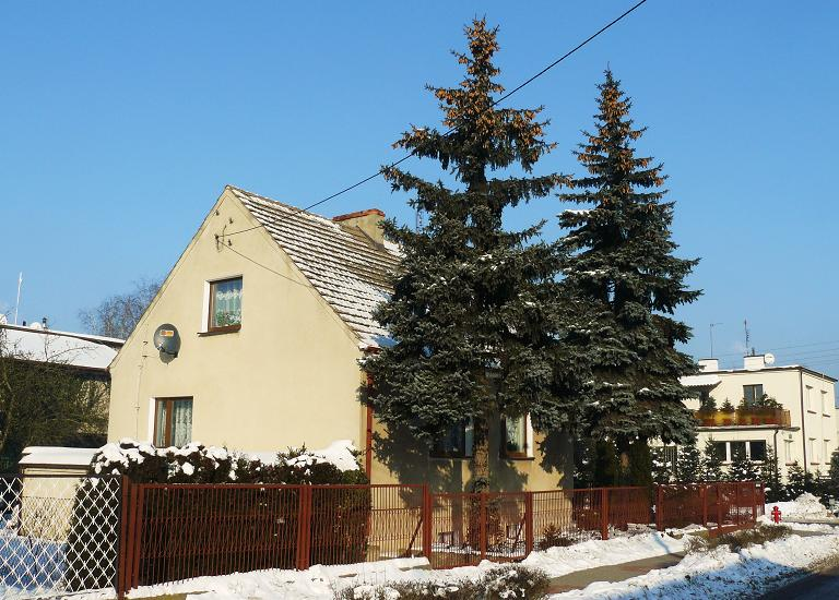 Poznan, Plewiska/Os. Kwiatowe District. Typical Old Hous.